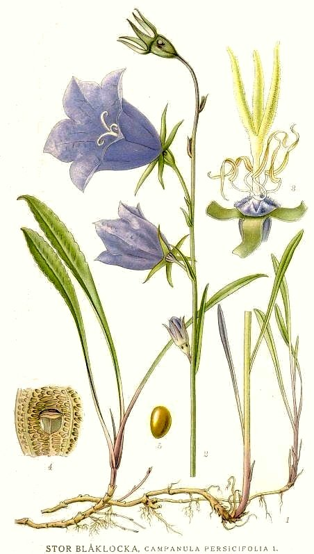 Original Description: Stor blåklocka, Campanula persicifolia L.